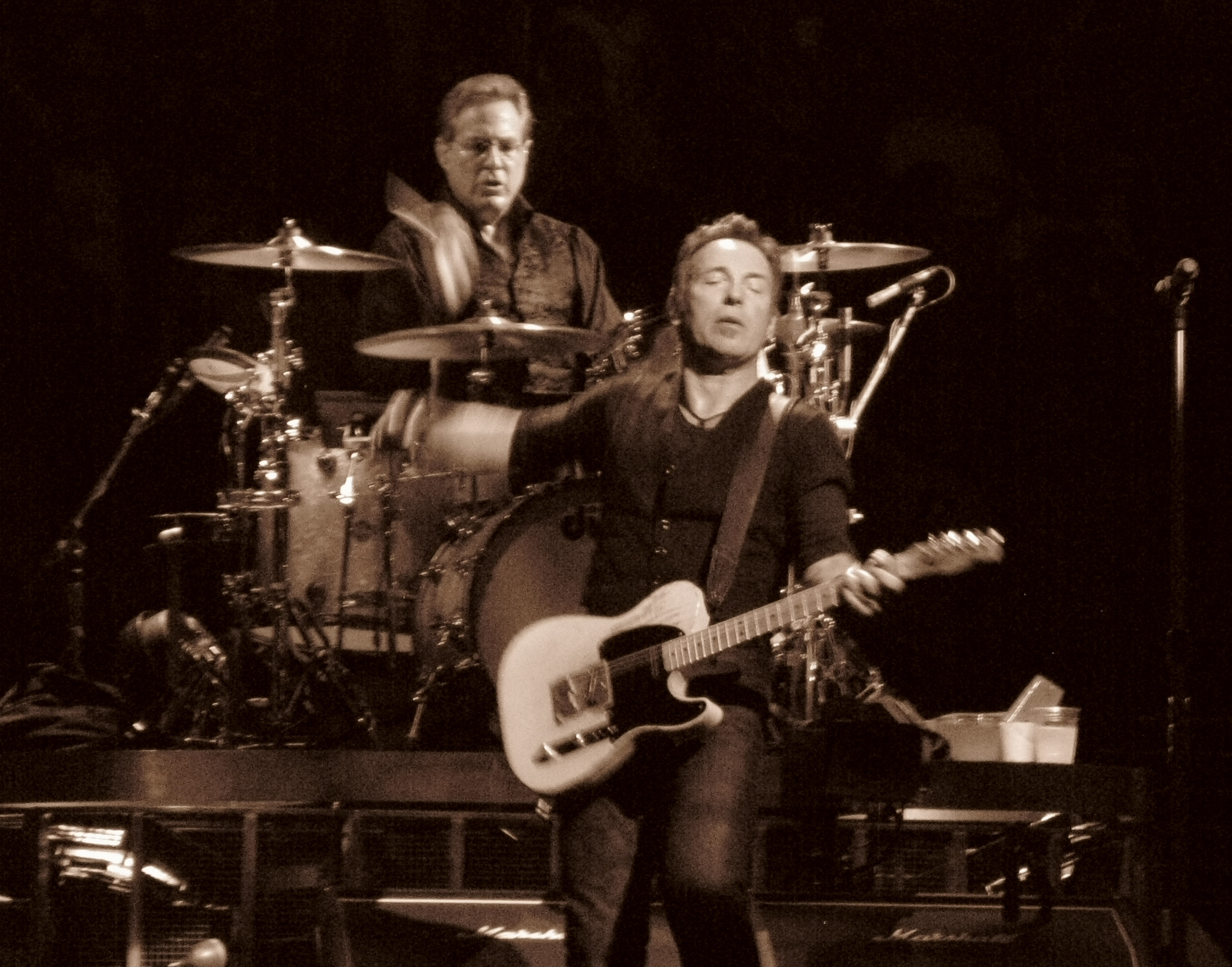 Bruce Springsteen and Max Weinberg, Wachovia Spectrum in Philadelphia, October 14 2009